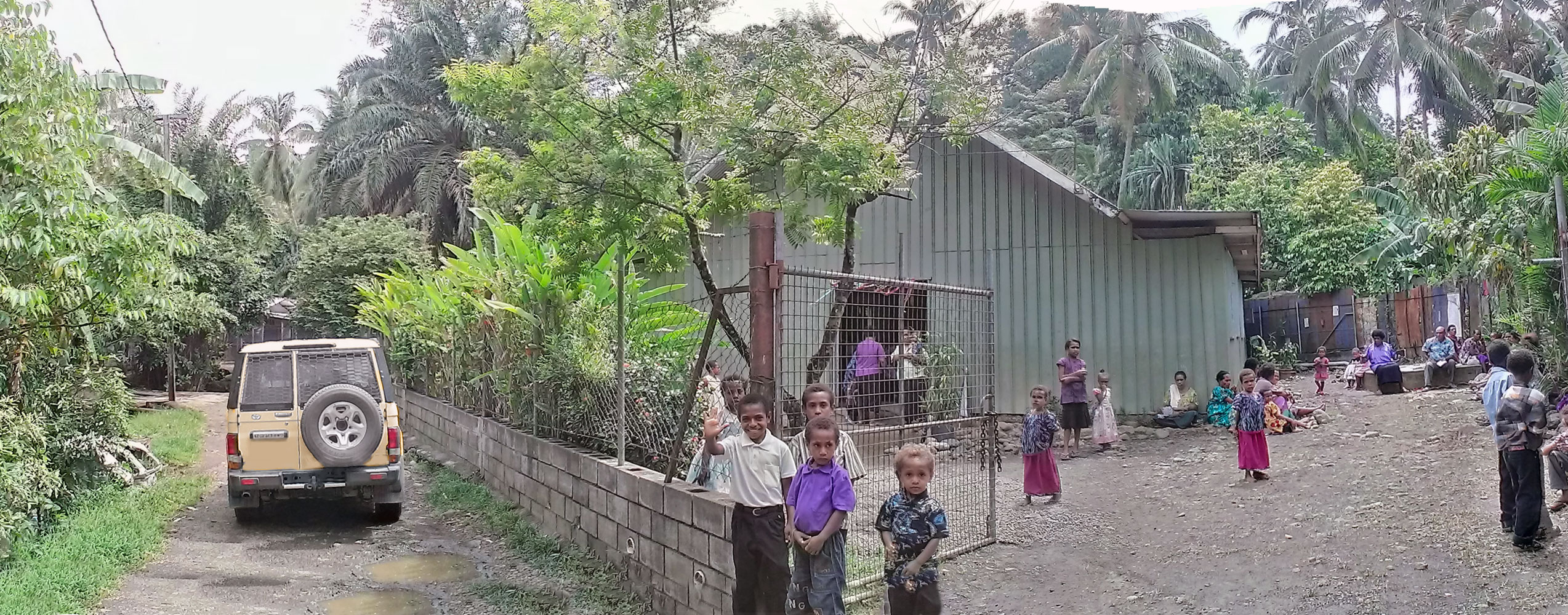 Seventh Day Adventist church - laneway off Mountain Cresent - Boundry / Atzera Settlements